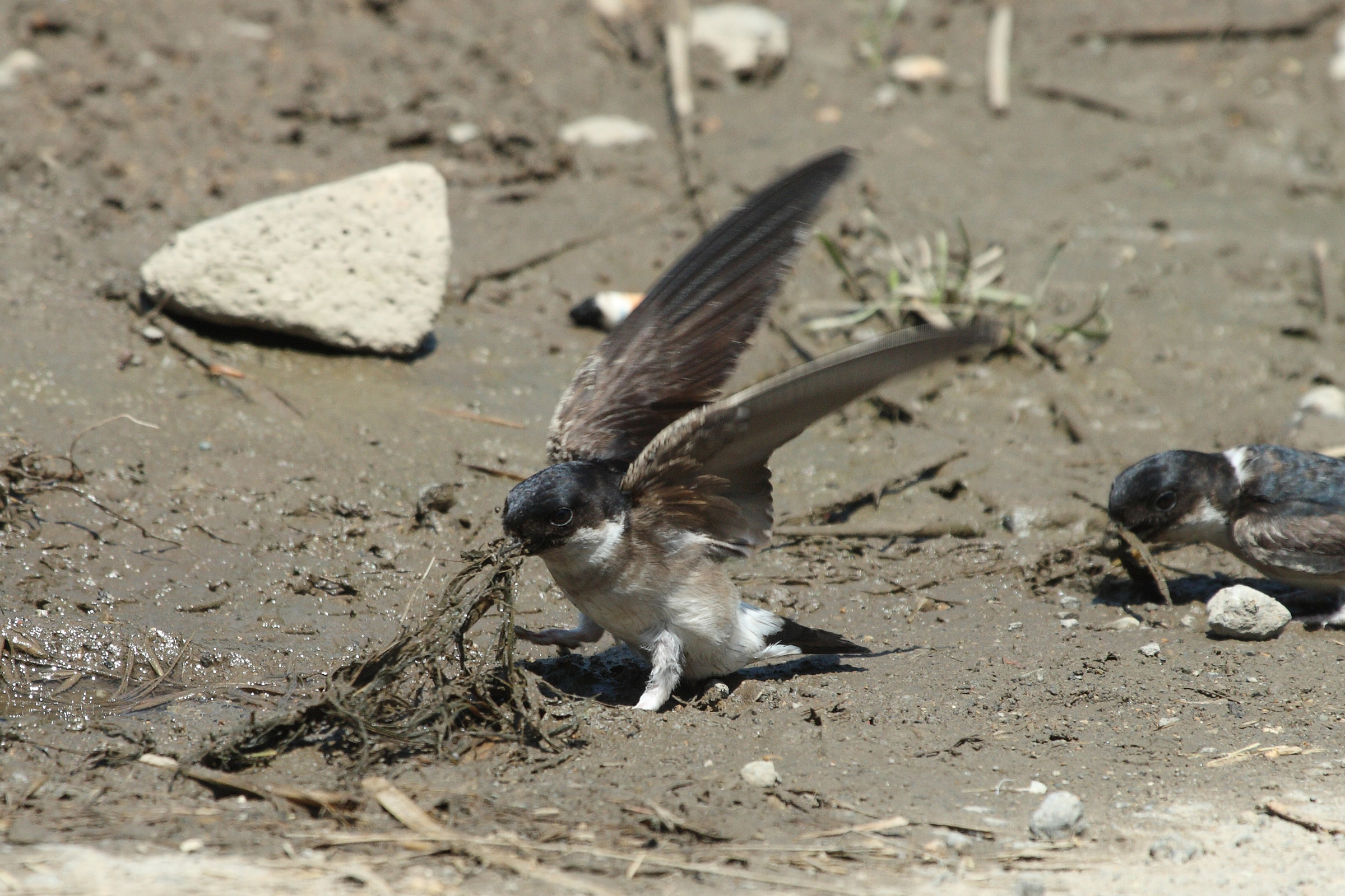 Asian House Martins gathering nest materials in Hakodate, Hokkaidō, Japan.